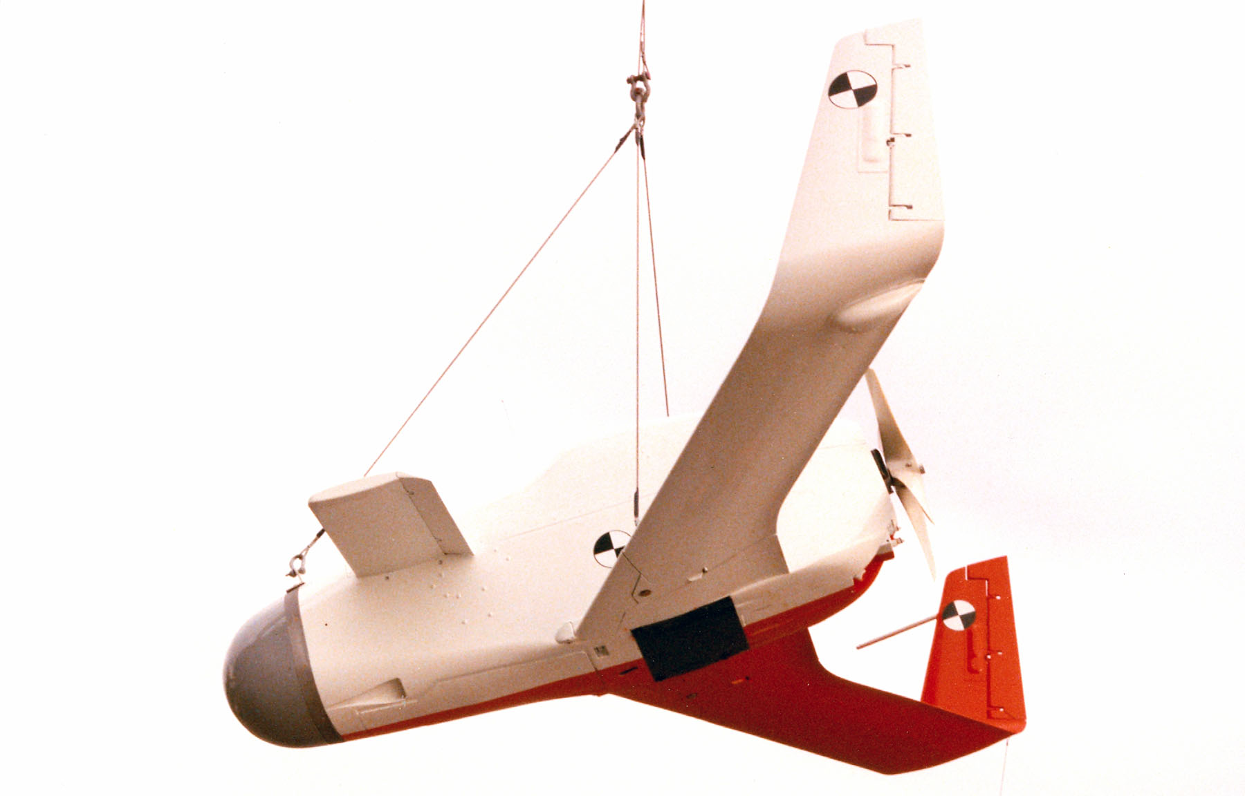 DAYTON, Ohio -- Boeing YCGM-121B Seek Spinner at the National Museum of the United States Air Force. (U.S. Air Force photo)